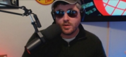 Timothy Henson recording The Distorted View podcast.